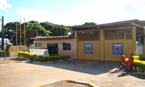 Posto Maringá Velho (Fire station) of the 5th GB (Fire Department of Maringá City) of Military Police of Parana State - Brazil.